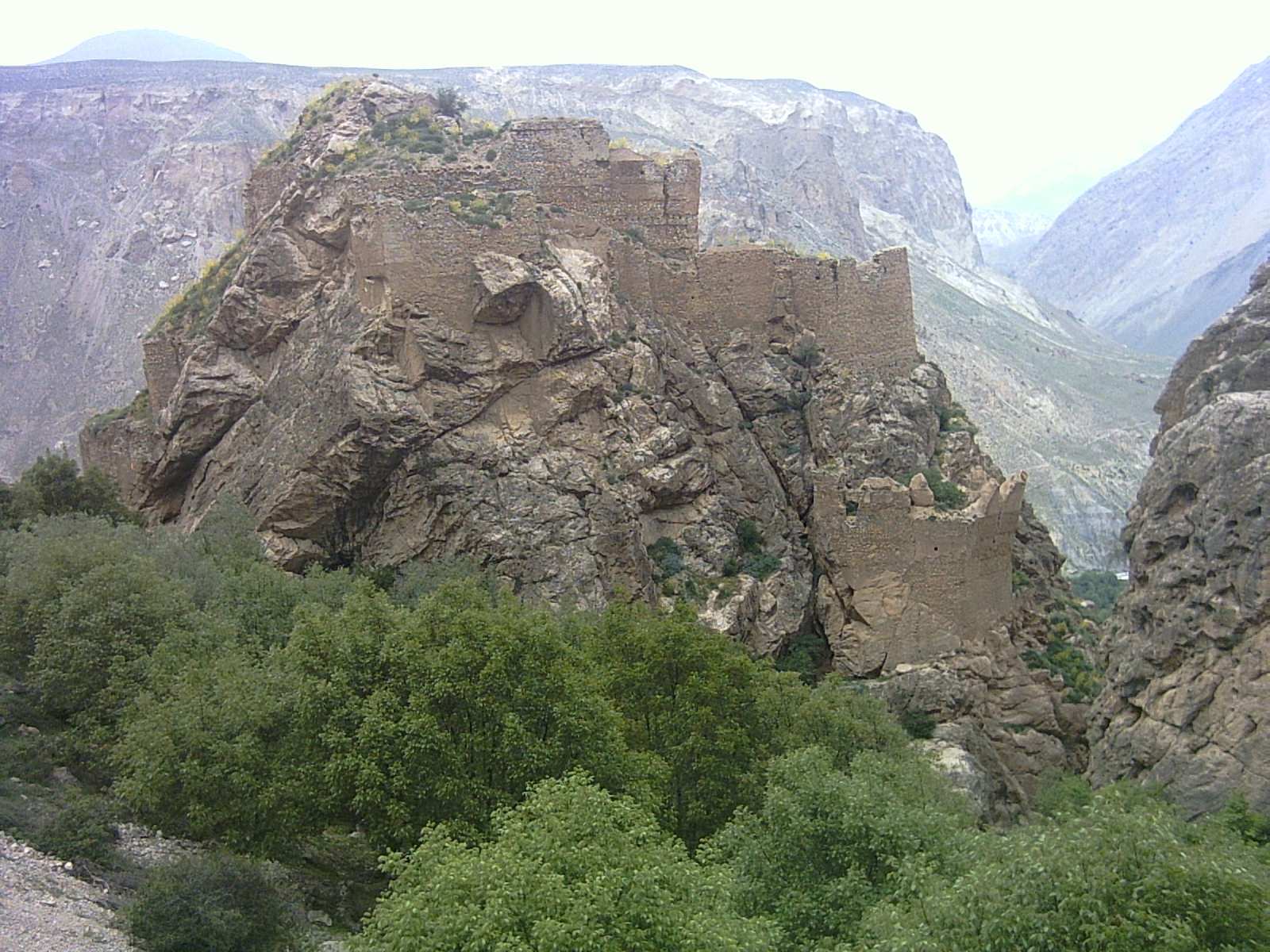 Bahman casttle 7